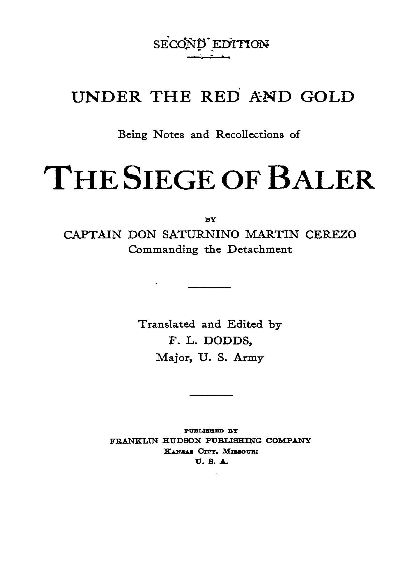 Front cover of Under the red and gold: being notes and recollections of the siege of Baler (1909), by the very Saturnino Martín Cerezo (translation into English by Frank Loring Dodds)